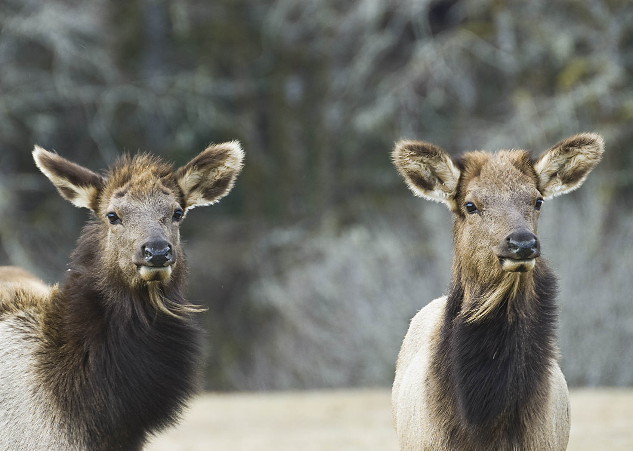 Roosevelt elk calves check out their surroundings at the Jewell Meadows Wildlife Area.